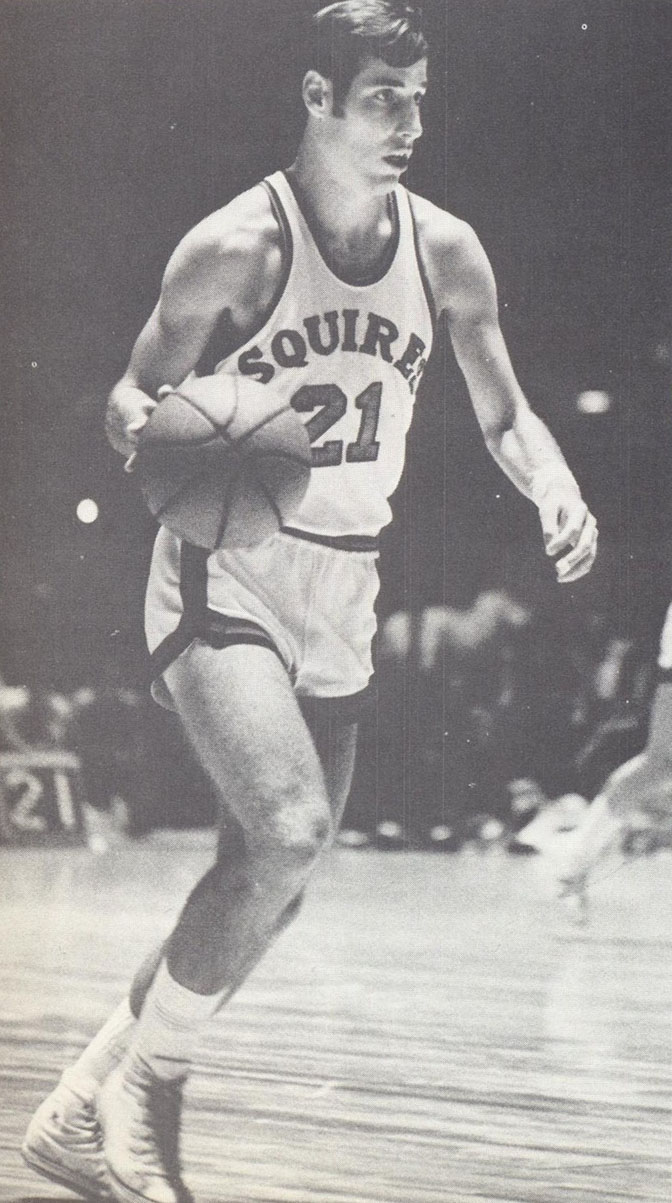 Professional basketball player and coach Dana Pagett as a member of the American Basketball Association Virginia Squires during the 1971–72 season.